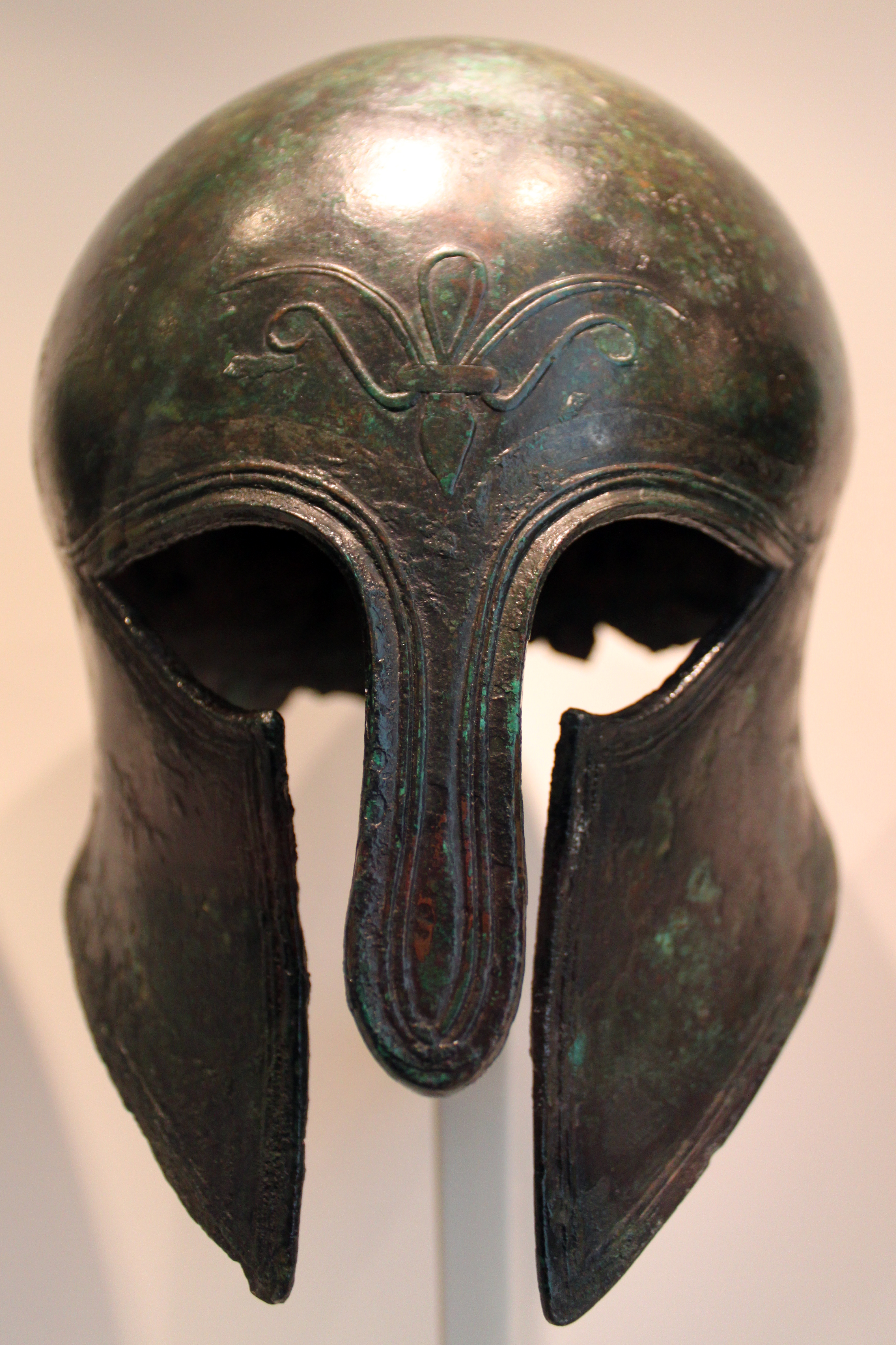 Altes Museum Native nameAltes MuseumLocationBerlinCoordinates52° 31′ 10″ N, 13° 23′ 54″ E Established1828Website control VIAF: 202689698 LCCN: n83197241 GND: 4506837-9 WorldCat Greek Bronze Helmet, 675 - 500 BC